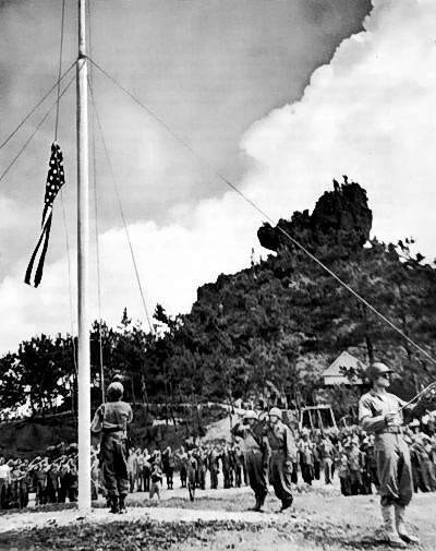 Raising the american flag on Okinawa on 22 June denoted the end of organized resistance.